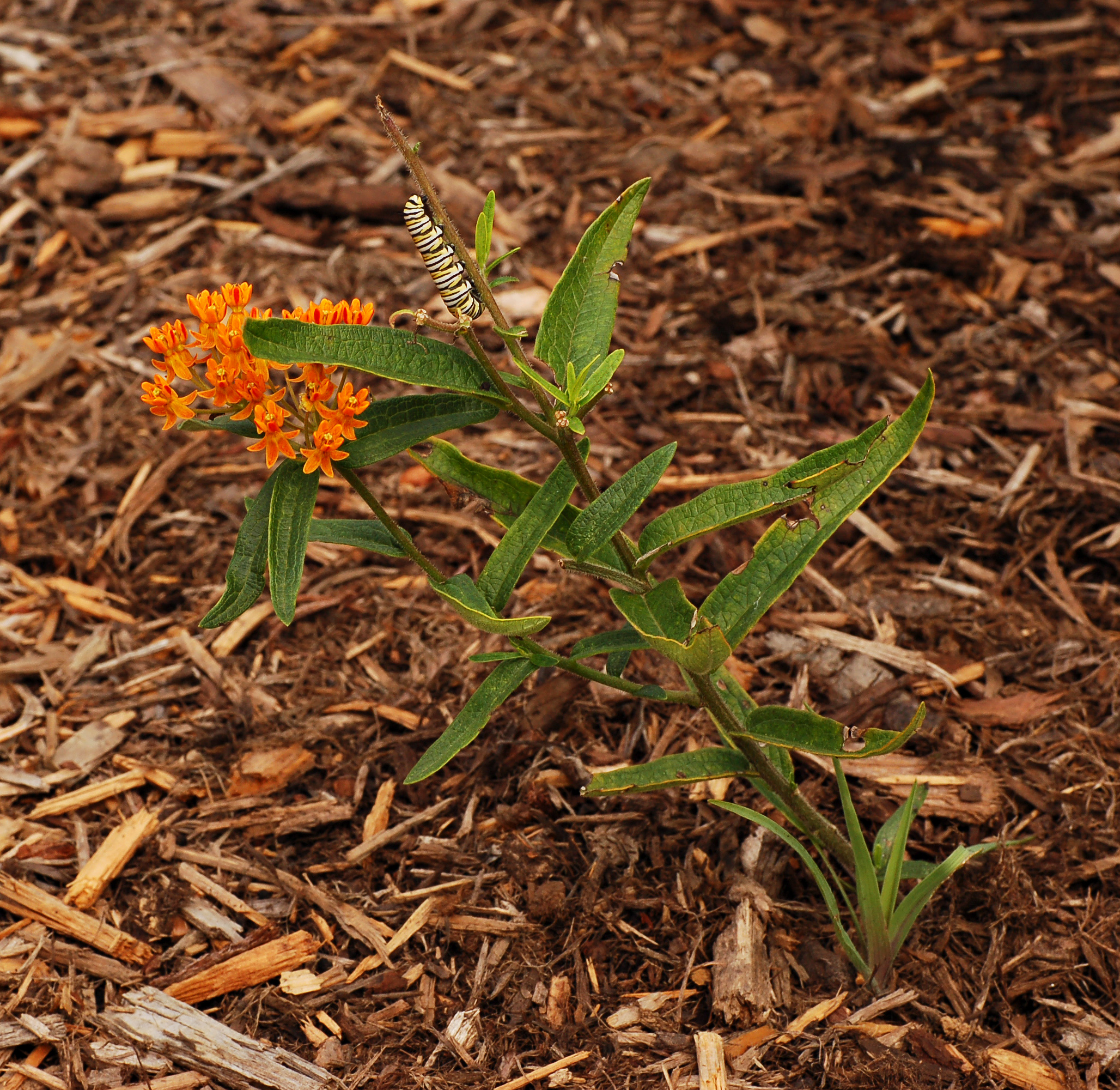 Photograph of Monarch Butterflyen (Danaus plexippus en ) caterpillar on a Butterfly Weeden (Asclepias tuberosa en ) plant.